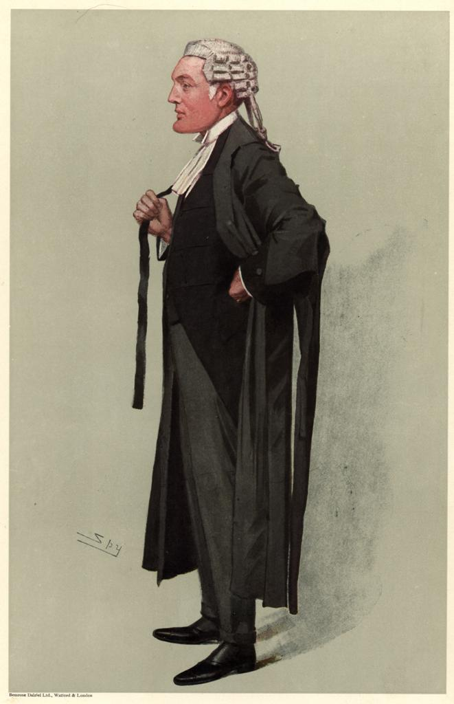 Bankes, John Eldon (1854-1946) - “Good Form”.